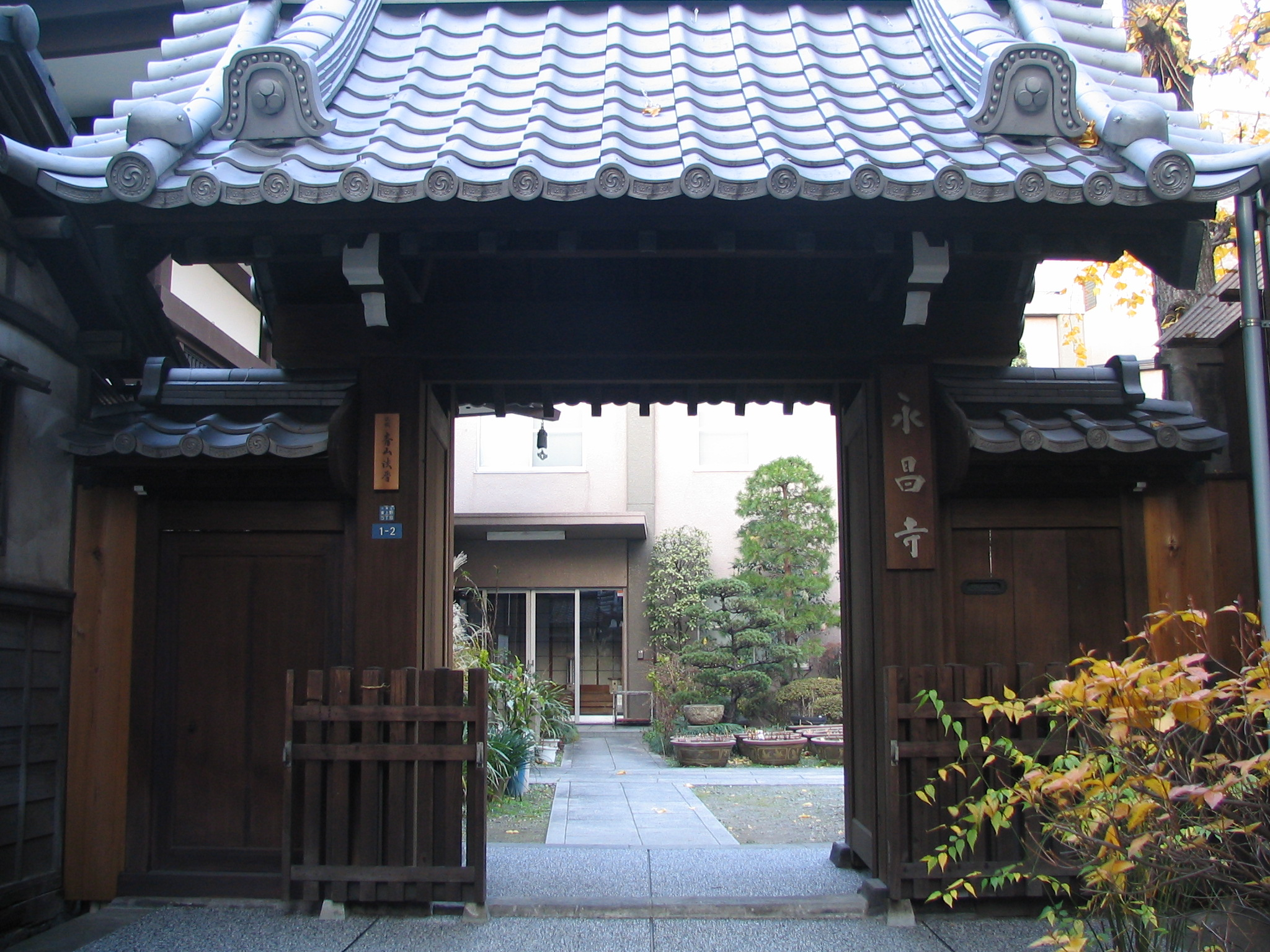 Eijoshi Temple in 2006